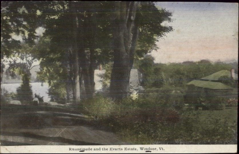 Photograph from 1910 Postcard showing Runnemede Estate in Windsor, Vt.